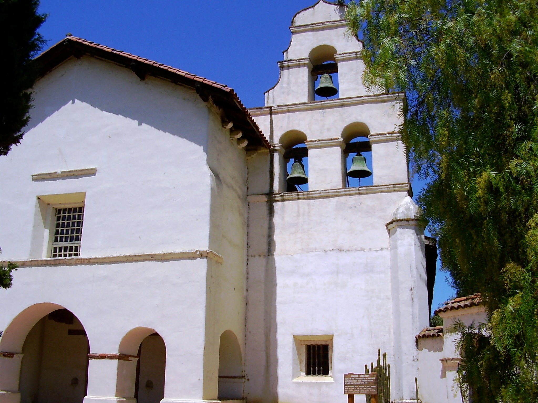 Mission San Juan Bautista. Photo taken at the San Juan Bautista Plaza in San Juan Bautista, California, United States, with an Olympus X450,D535Z,C370Z digital camera.